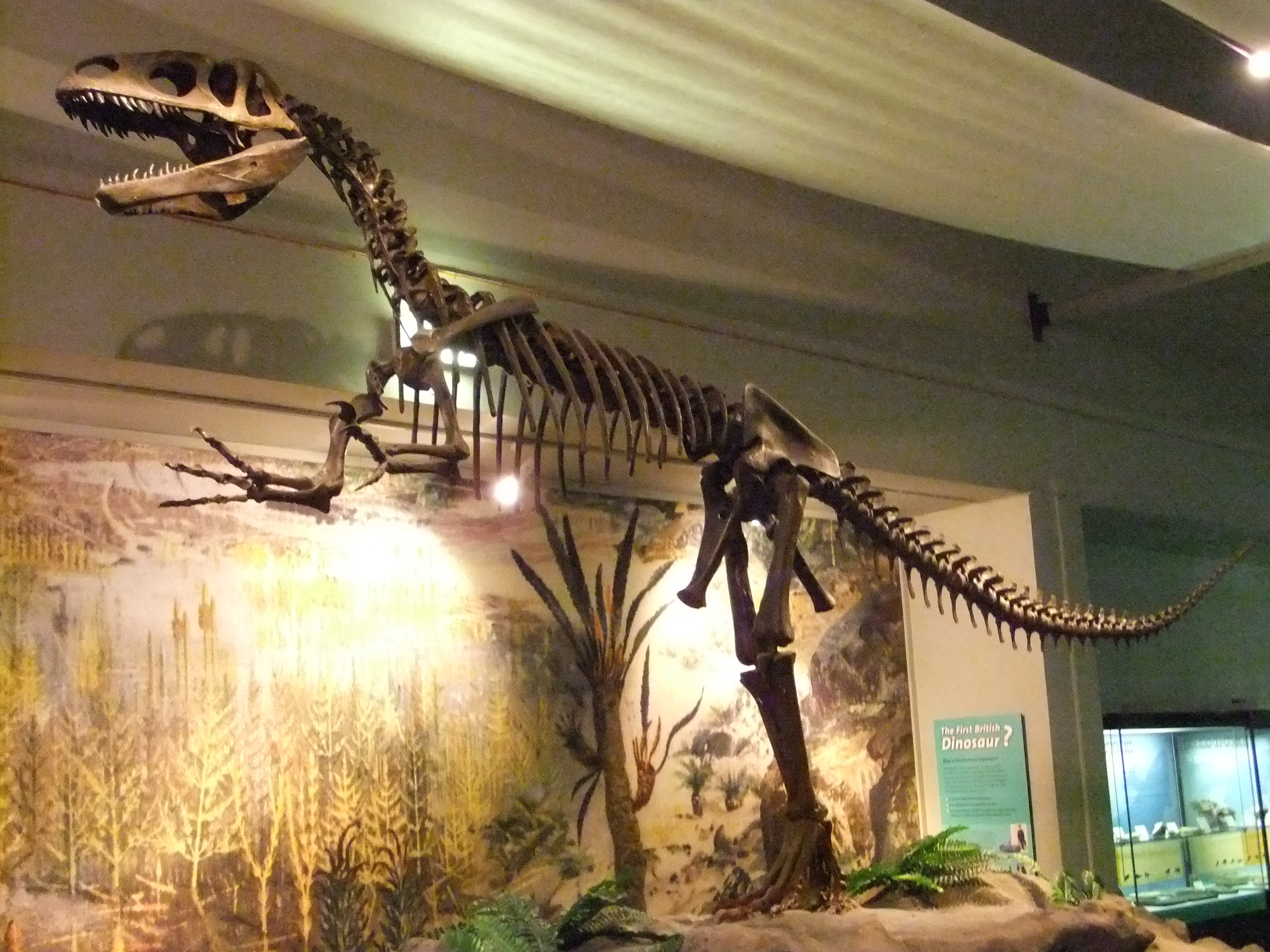 Megalsoaurus skeleton, World Museum Liverpool, England. Found in southern England.